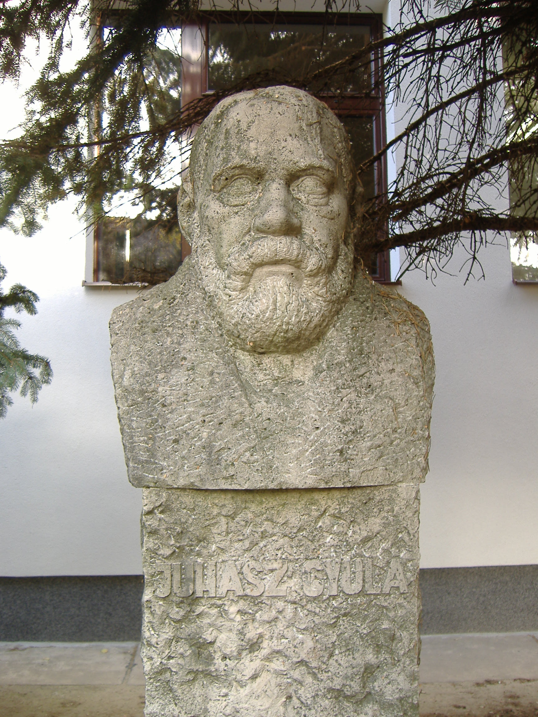 Statue of Gyula Juhász, Hungarian poet in Makó, Hungary.